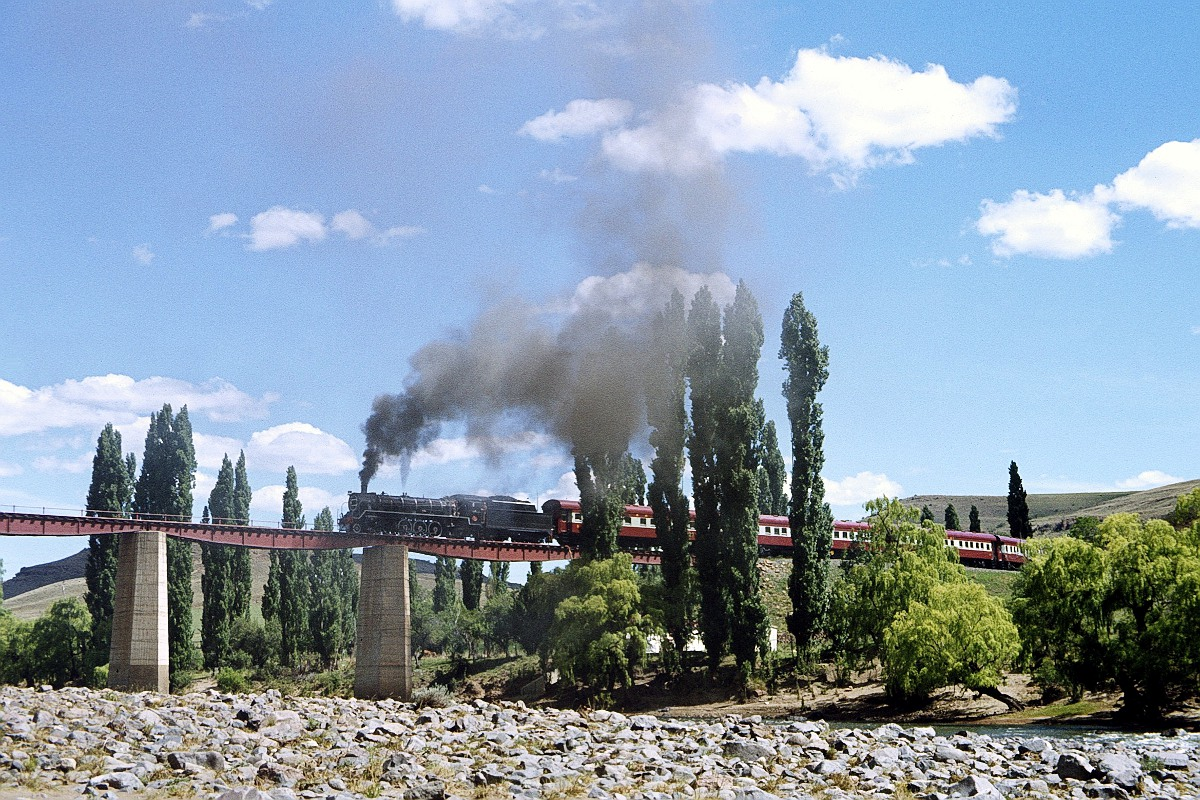 A class 19D locomotive crossing the Kraai River bridge close to Tierkrans station with a special train at the Aliwal North - Lady Grey - Barkly East branch line.